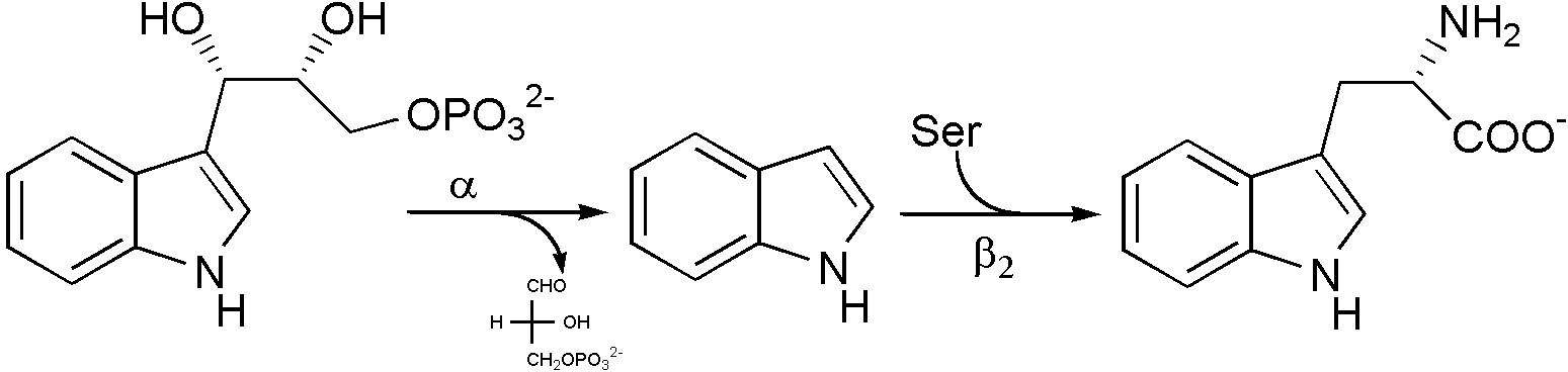 Description: Tryptophan synthase (EC 4.2.1.20) catalyses the reaction between indole 3-glycerolphosphate and serine to produce tryptophan. The enzyme from .E. coli is an &alpha2β2 tetramer, with the α- and β-subunits catalyzing different steps of the reaction as indicated. Free indole is not released from the native tetramer. Author, date of creation: selfmade by Physchim62 on 2005-08-12. Source: user-created image Copyright: GNU Free Documentation License. (GFDL) Comments: high-resolution b/w PNG from ChemDraw Ultra 6.0.